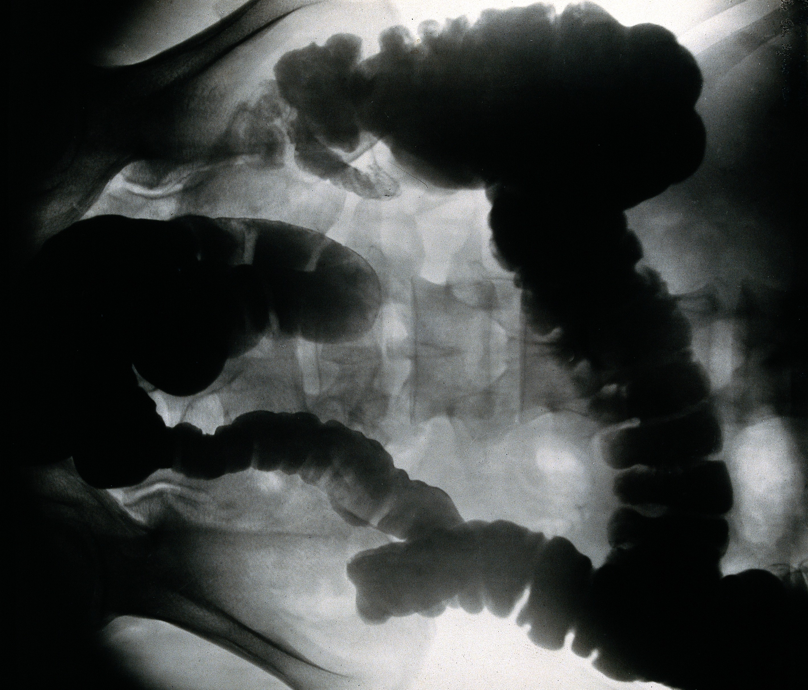 Amoebiasis: x-ray of colon. Photograph, 1930. Iconographic Collections Keywords: Philip H. Manson-Bahr; F. Wood